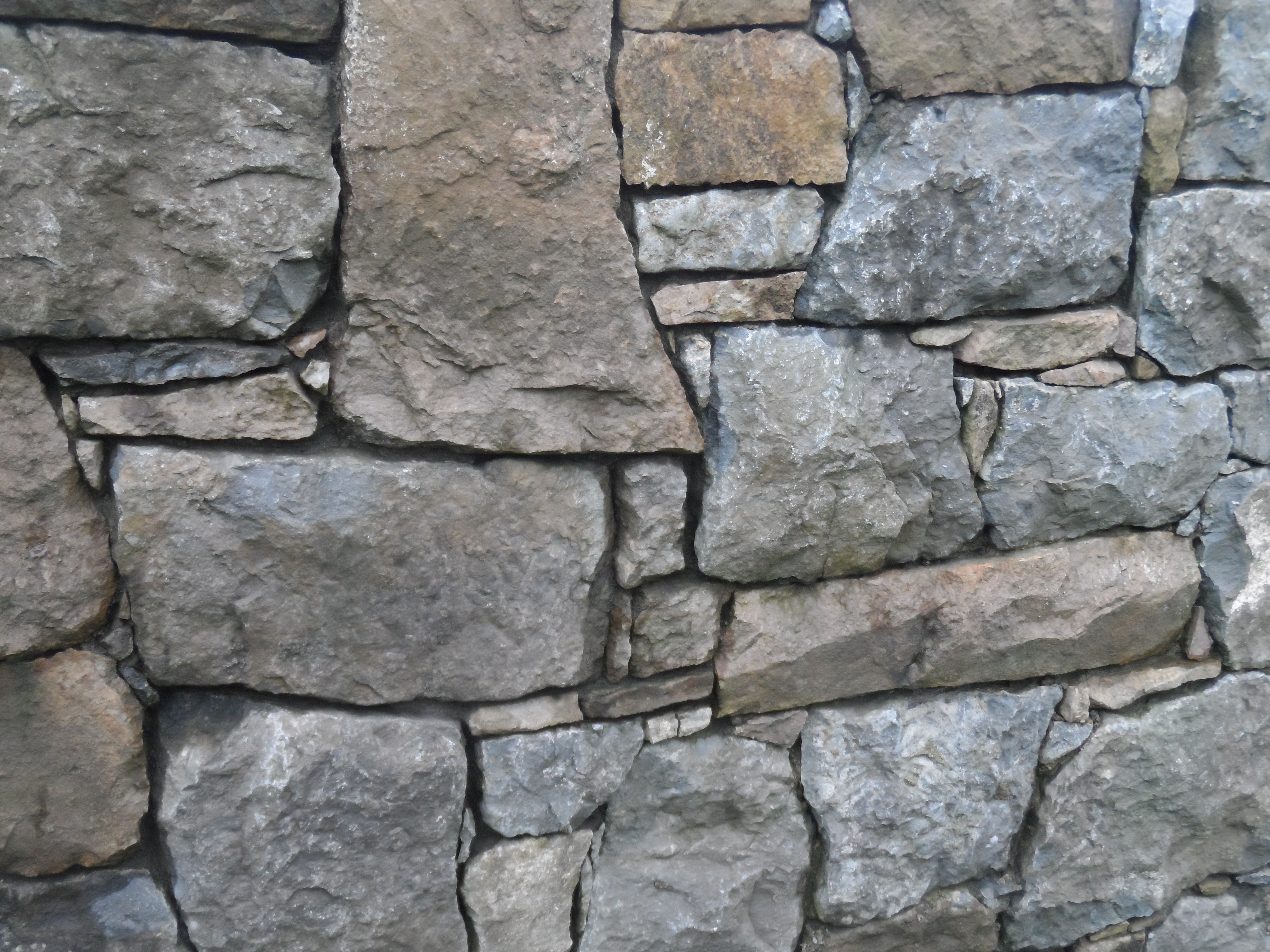 Stone wall, Co Cork